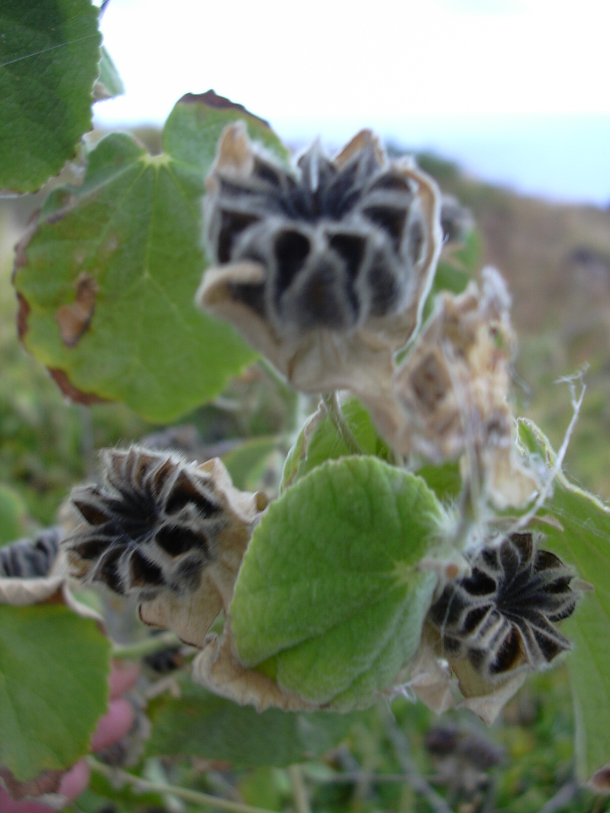 Abutilon grandifolium (seed pods). Location: Maui, Kahikinui